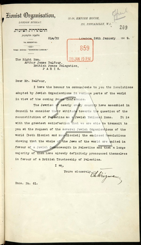 Letter written on 24 January 1919 by Chaim Weizmann to Arthur Balfour, who had just arrived in Paris to attend the Paris Peace Conference. Purpose was to submit the Zionist wish to turn Palestine into a Jewish Commonwealth.